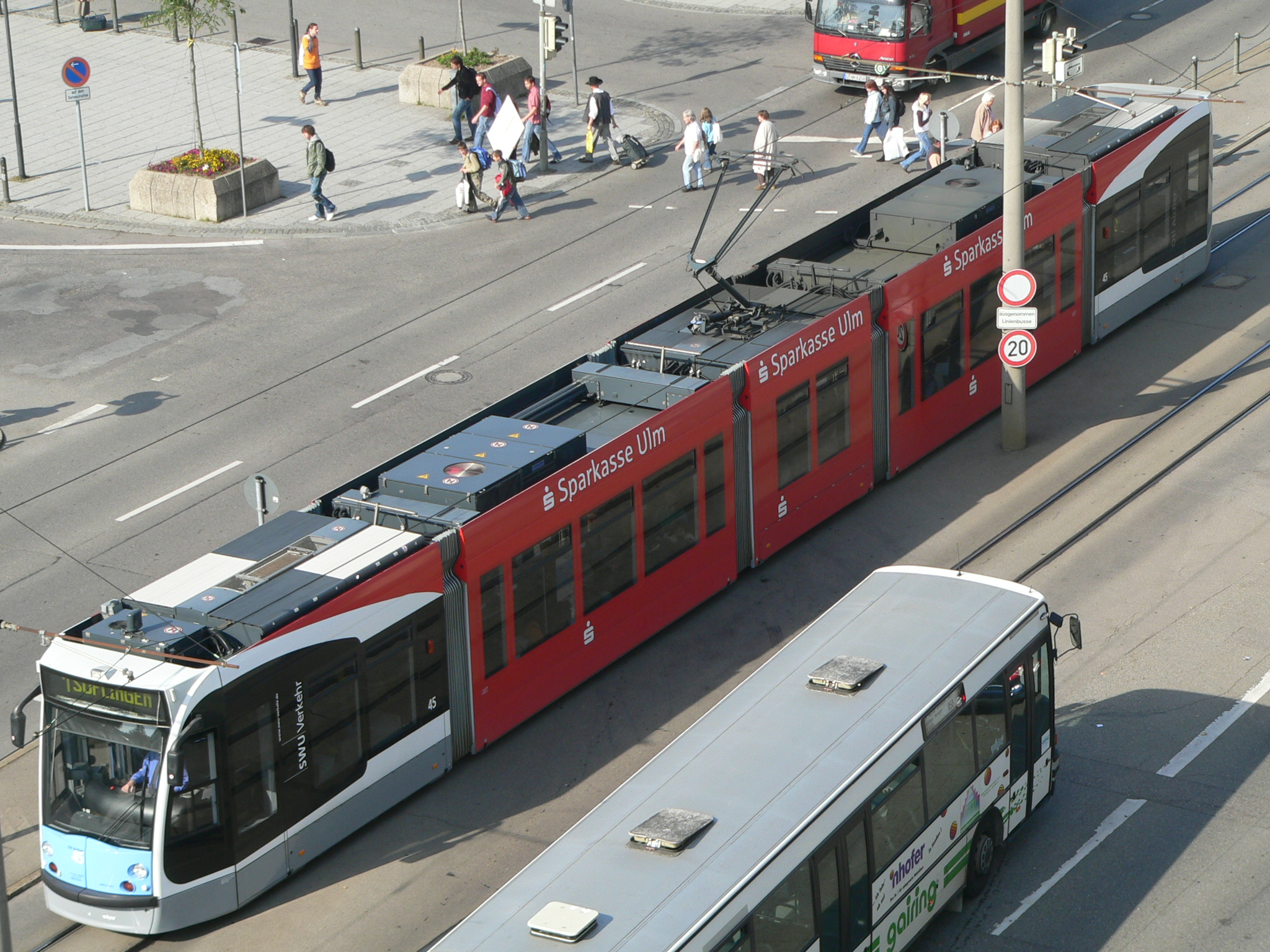 Tram Ulm, Germany, type combino near main station